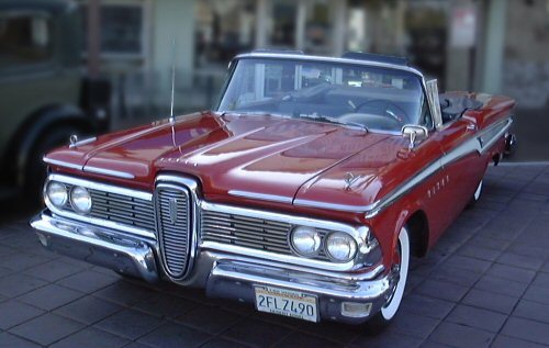 1959 Edsel Corsair convertible. Taken at the Garden Grove, California Main Street weekly car show, Friday April 16, 2004, and released under the GFDL.